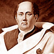 Johann Wilhelm Kellner von Zinnendorf (1731-1782)